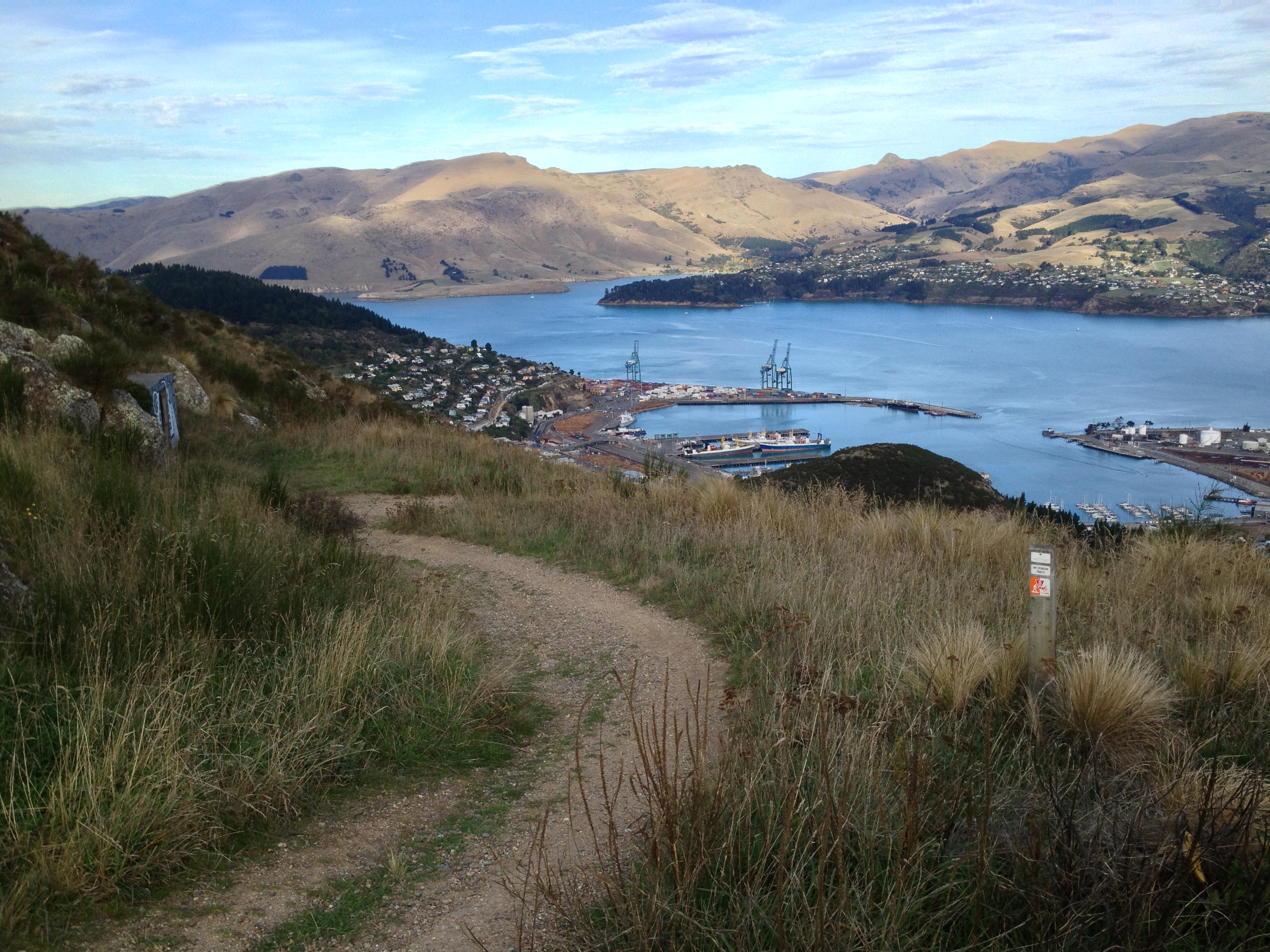 View of Lyttelton Harbour from the top of Bridle Path.